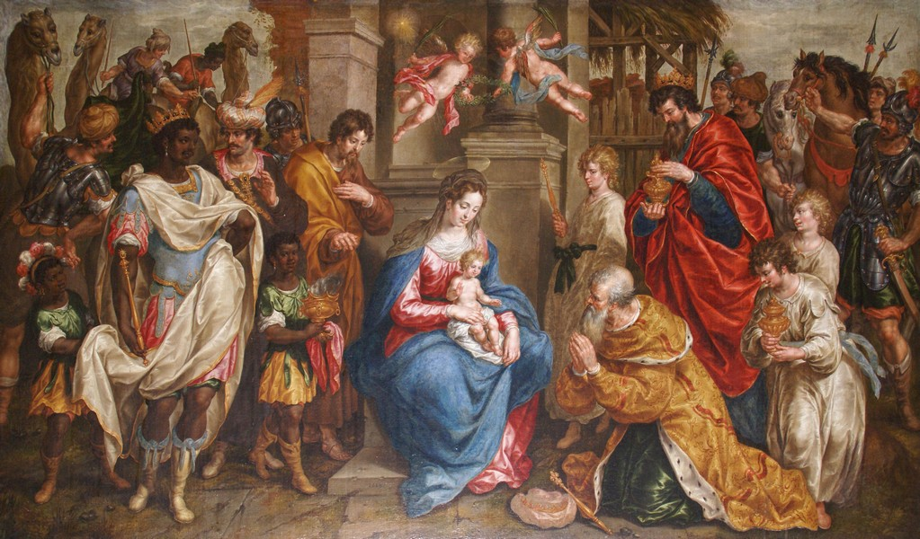 The Adoration of the Magi